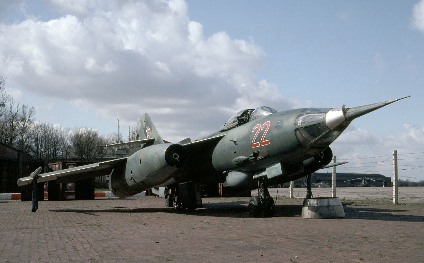 At Werneuchen this Yak-28 'Brewer' was used as training object.